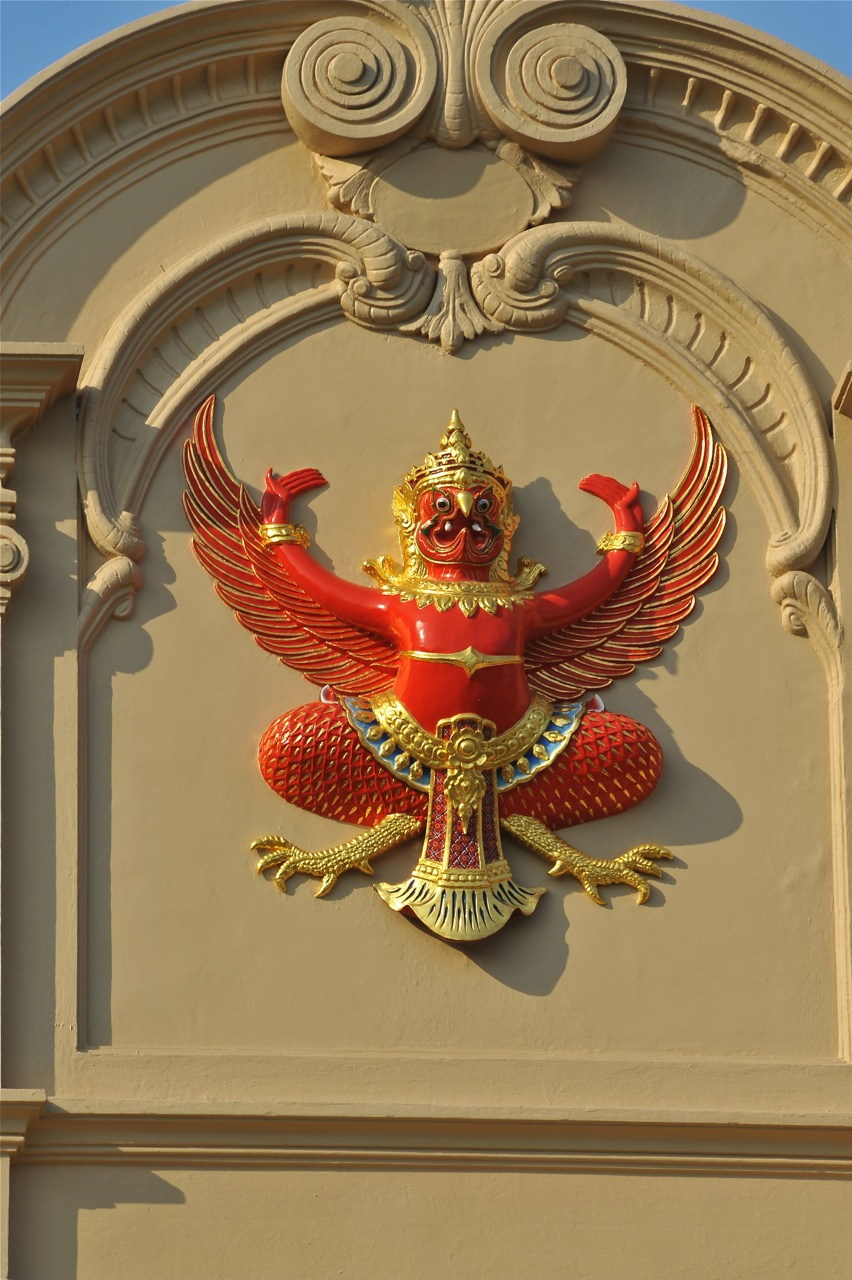 Photo of a red garuda on exterior wall of Grand Palace building near Wat Phra Kaeo Museum, Grand Palace, Bangkok, Thailand